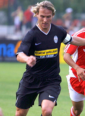 July 2007. FC Juventus summer training ground, Italy. Pavel Nedvěd.